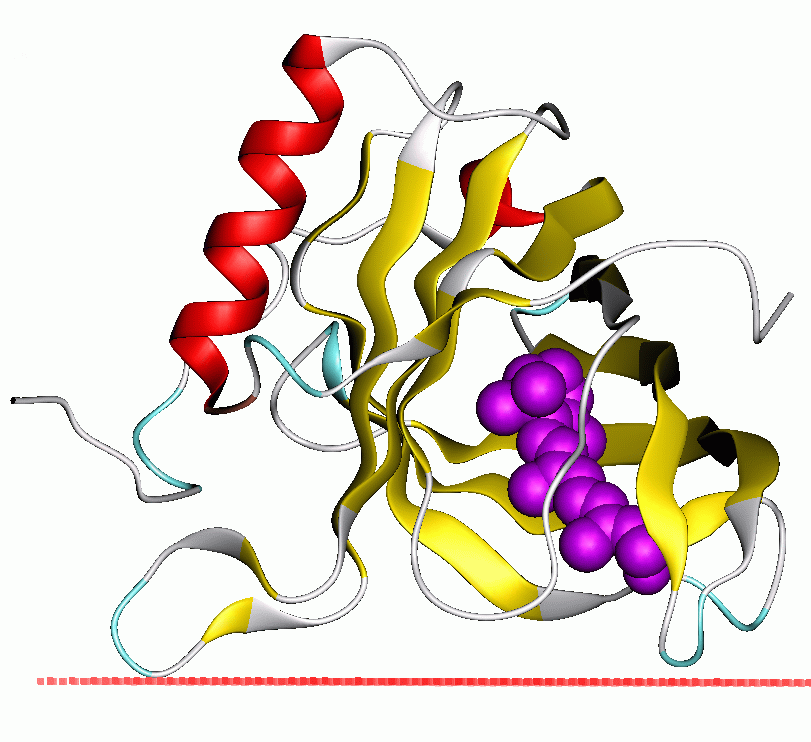 Protein image from OPM database